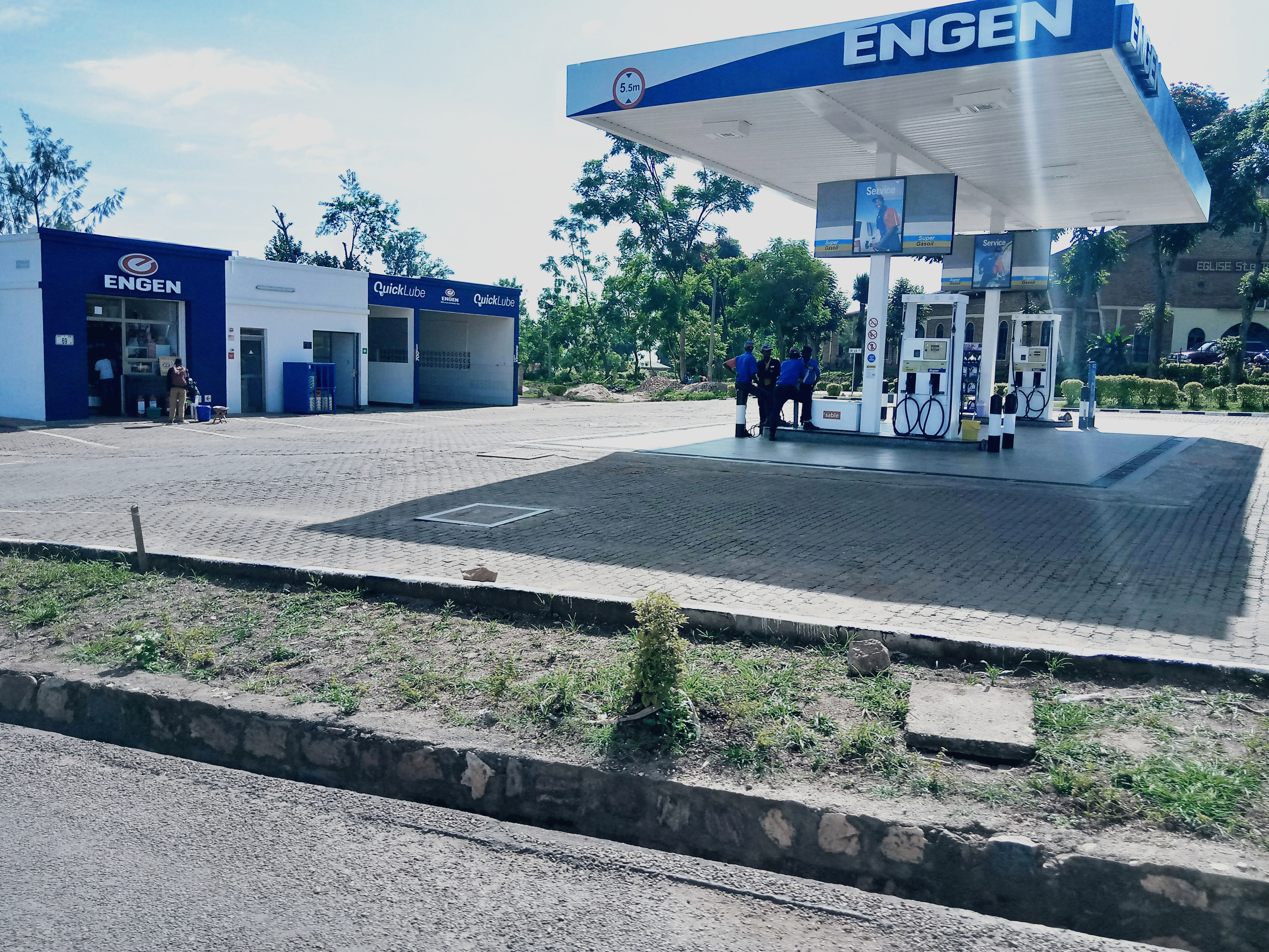 This is an image with the theme "Africa on the Move or Transport" from: Rwanda